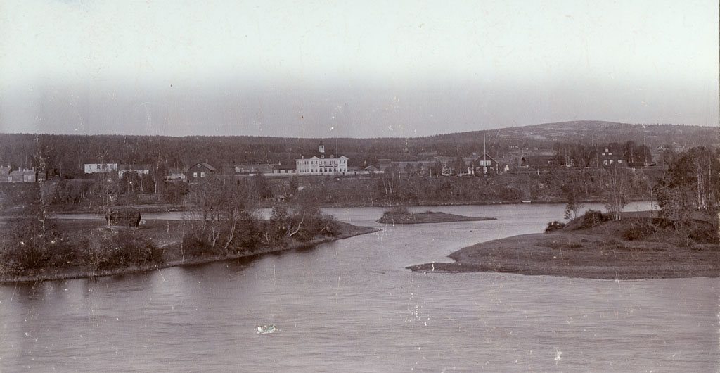 View over Skellefteå, with the old District Court House in the middle of the picture. Format: Albumen print